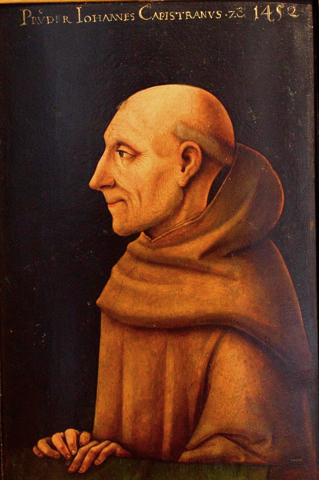 Saint John of Capistrano, a 15th century Franciscan priest from Italy